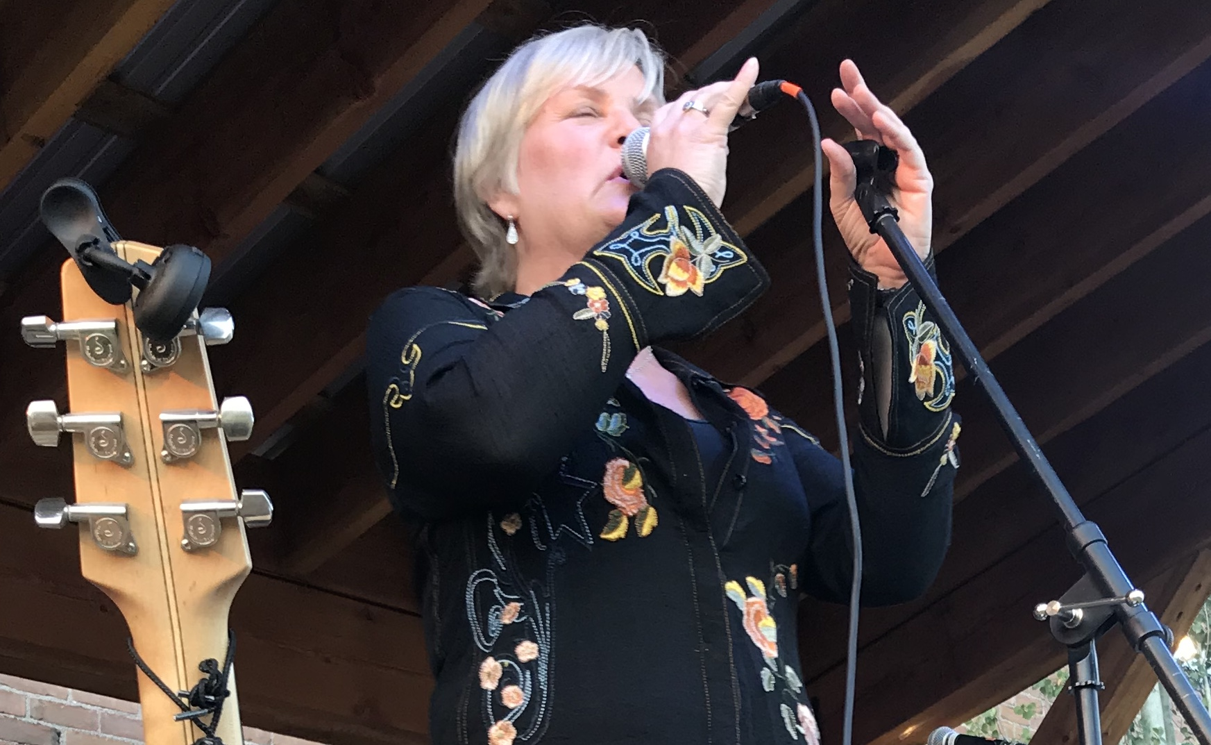 Elisabeth Carlisle-Hollenbeck performing live.